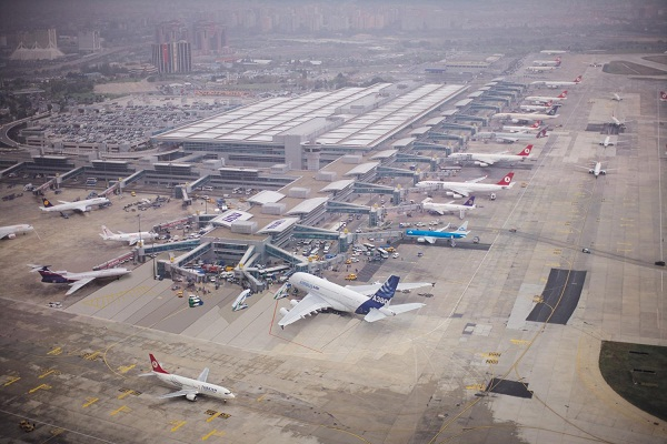 Açıklama Atatürk İnternational Airport Fly view